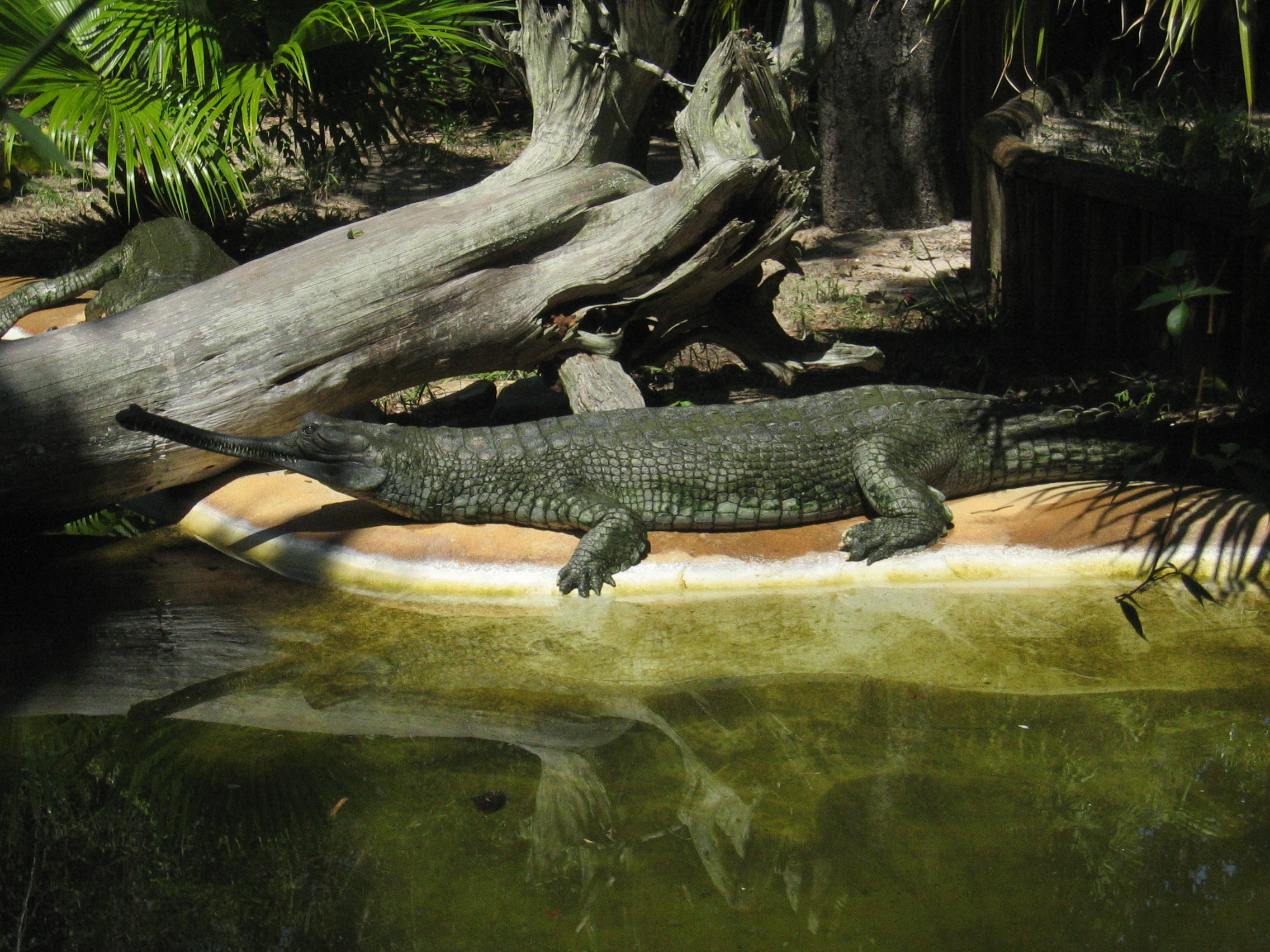 Photo of an Indian gharial (Gavialis gangeticus) crocodile in a Florida zoo.